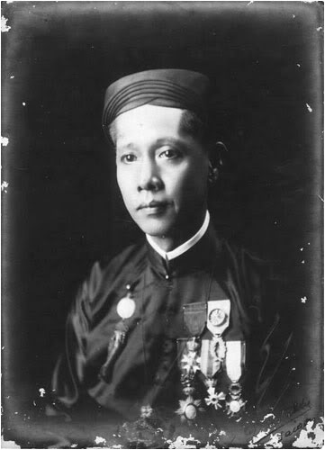 Vietnamese scholar Truong Vinh Ky